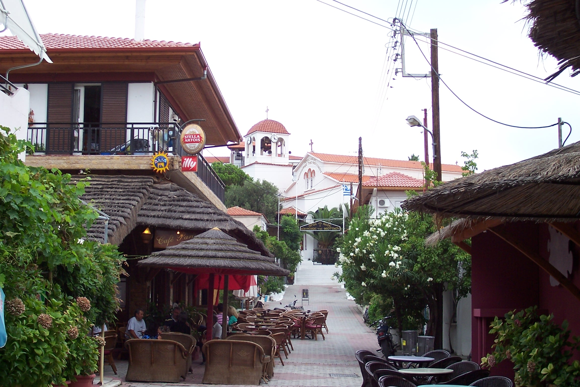 Sarti, Chalkidiki Prefecture, Greece.